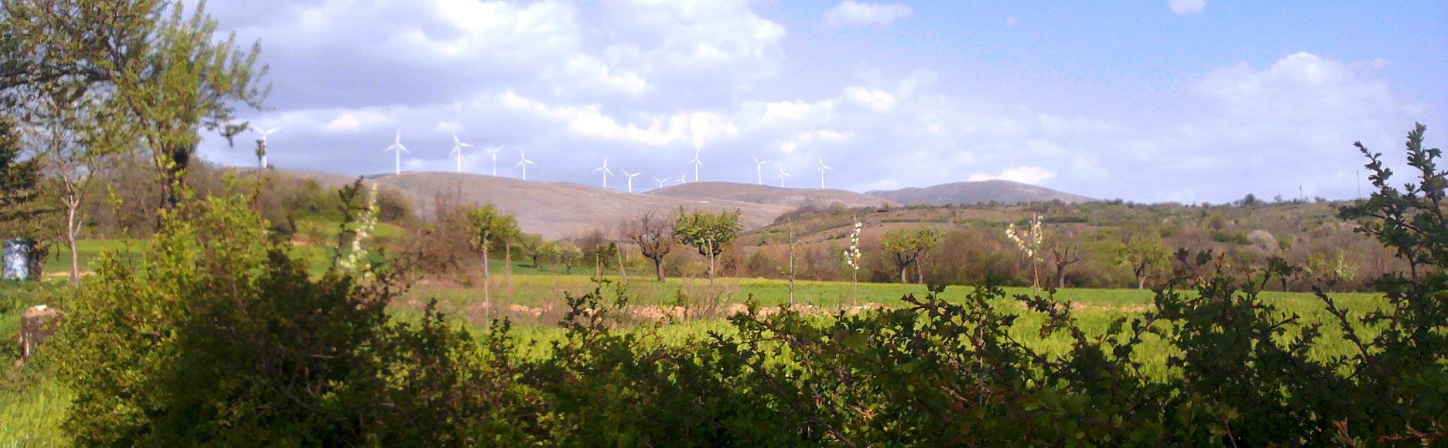 Wind Farm in Collarmele